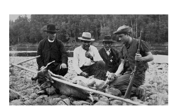 Frank Swannell with Father Coccola. Photo taken 1909.